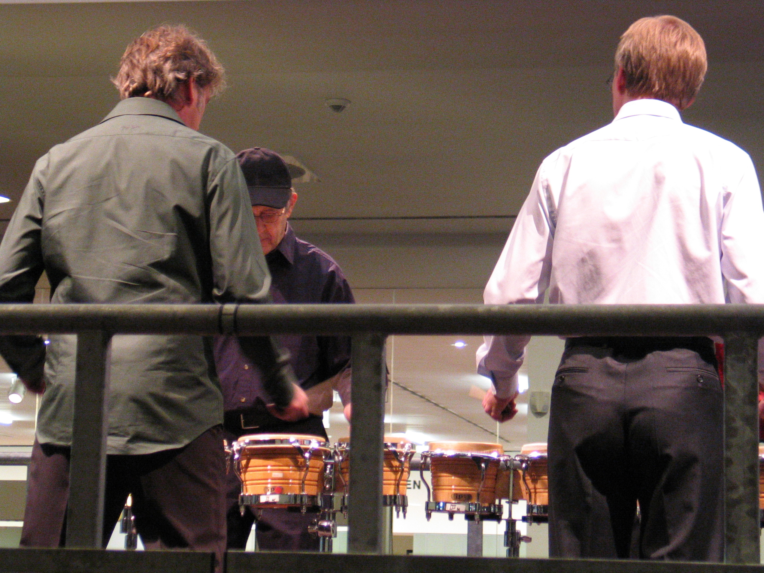 Steve Reich (background with the hat) rehearsing Drumming on Jan 27th 2009 in Koln